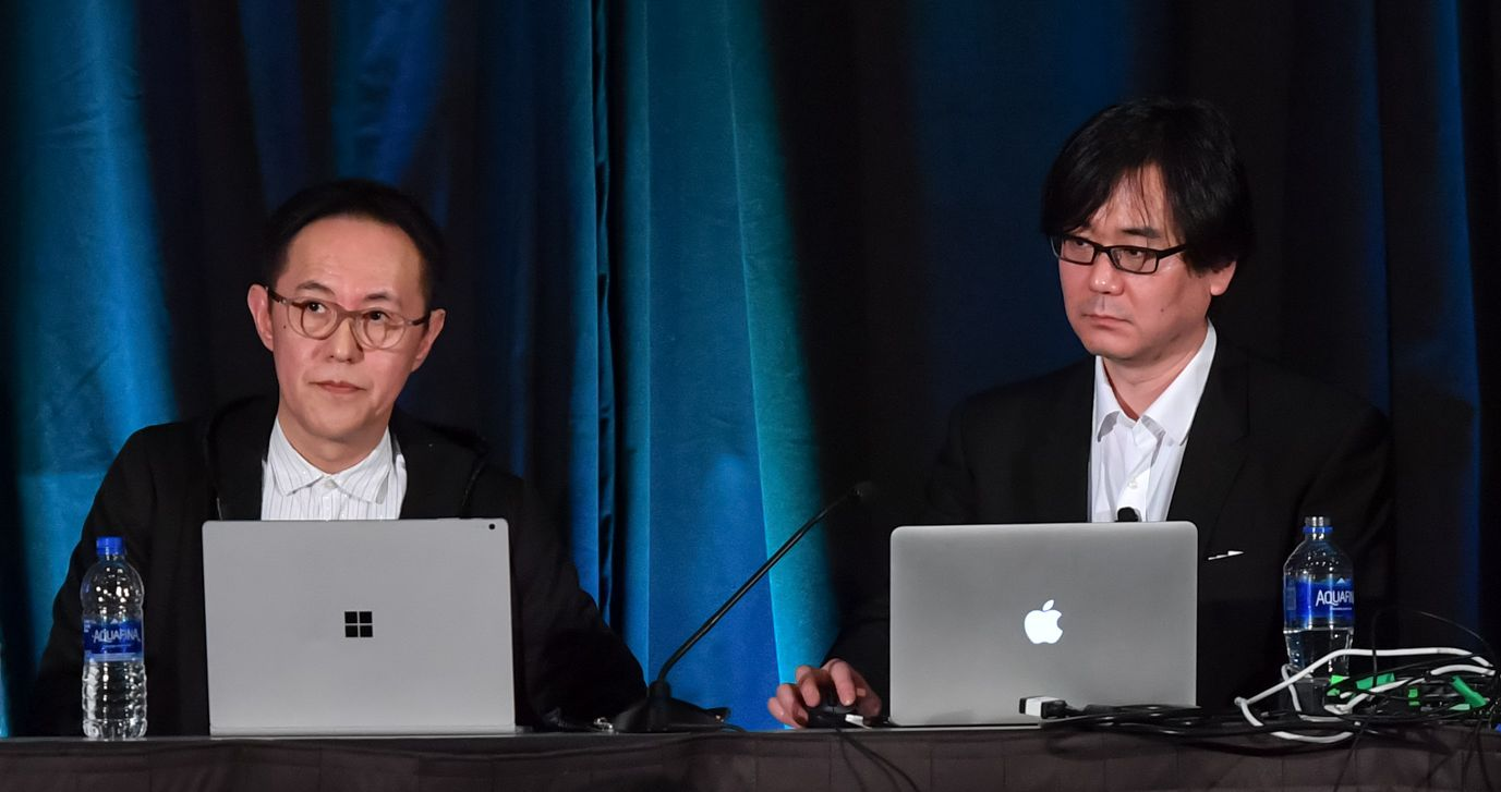 Naoto Ohshima (left) and Hirokazu Yasuhara (right) at the 2018 Game Developers Conference